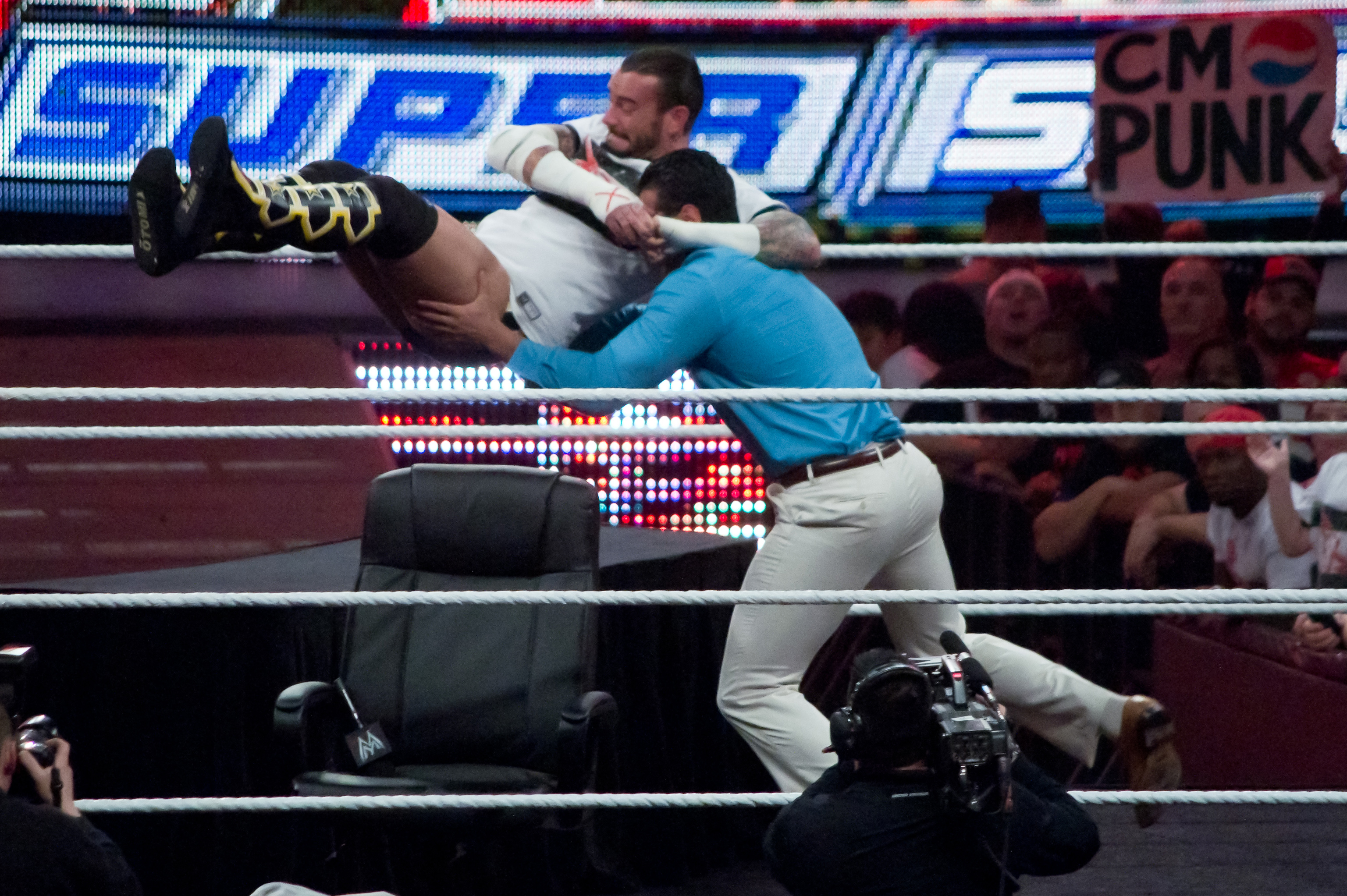 CM Punk bulldogs Alberto Del Rio through a table after a typical WWE Championship contract signing. Taken December 6, 2011 during the WWE Raw telecast in Tampa, Florida.